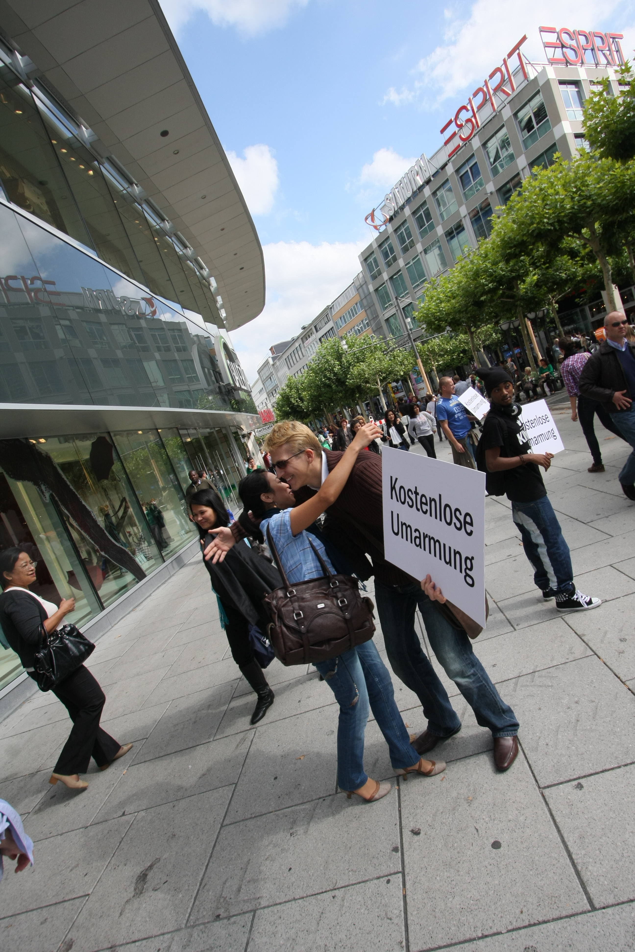 Tobias (31) giving free hugs in Frankfurt am Main, Germany to passers-by